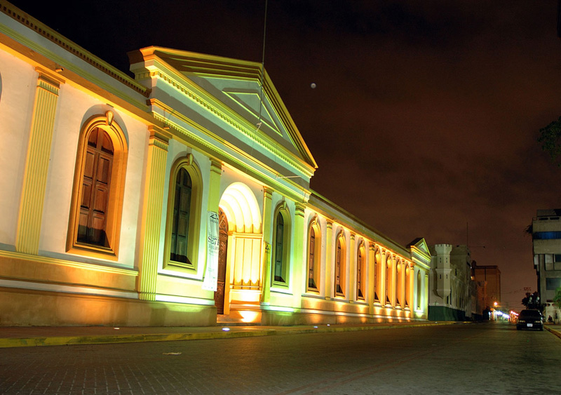 ingles